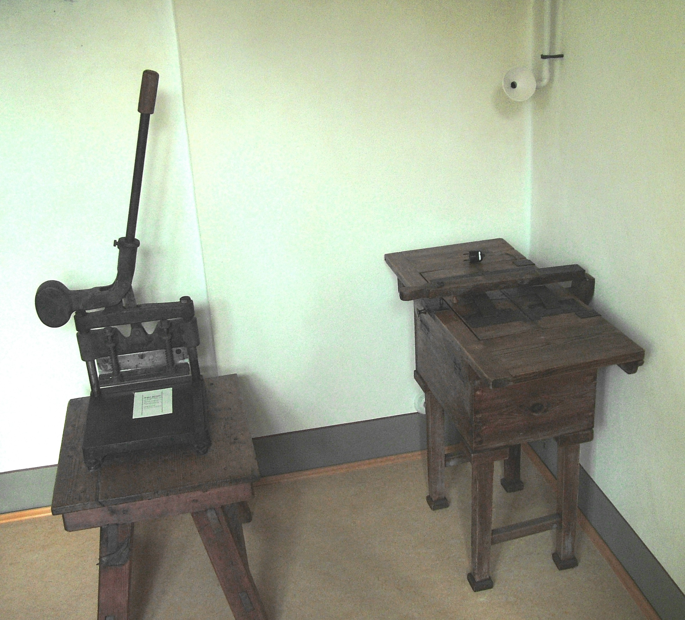 Josef Seidel atelier in Český Krumlov